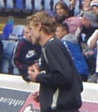 Jiří Jarošík, then of Birmingham City F.C., warms up before the Premier League game against Aston Villa